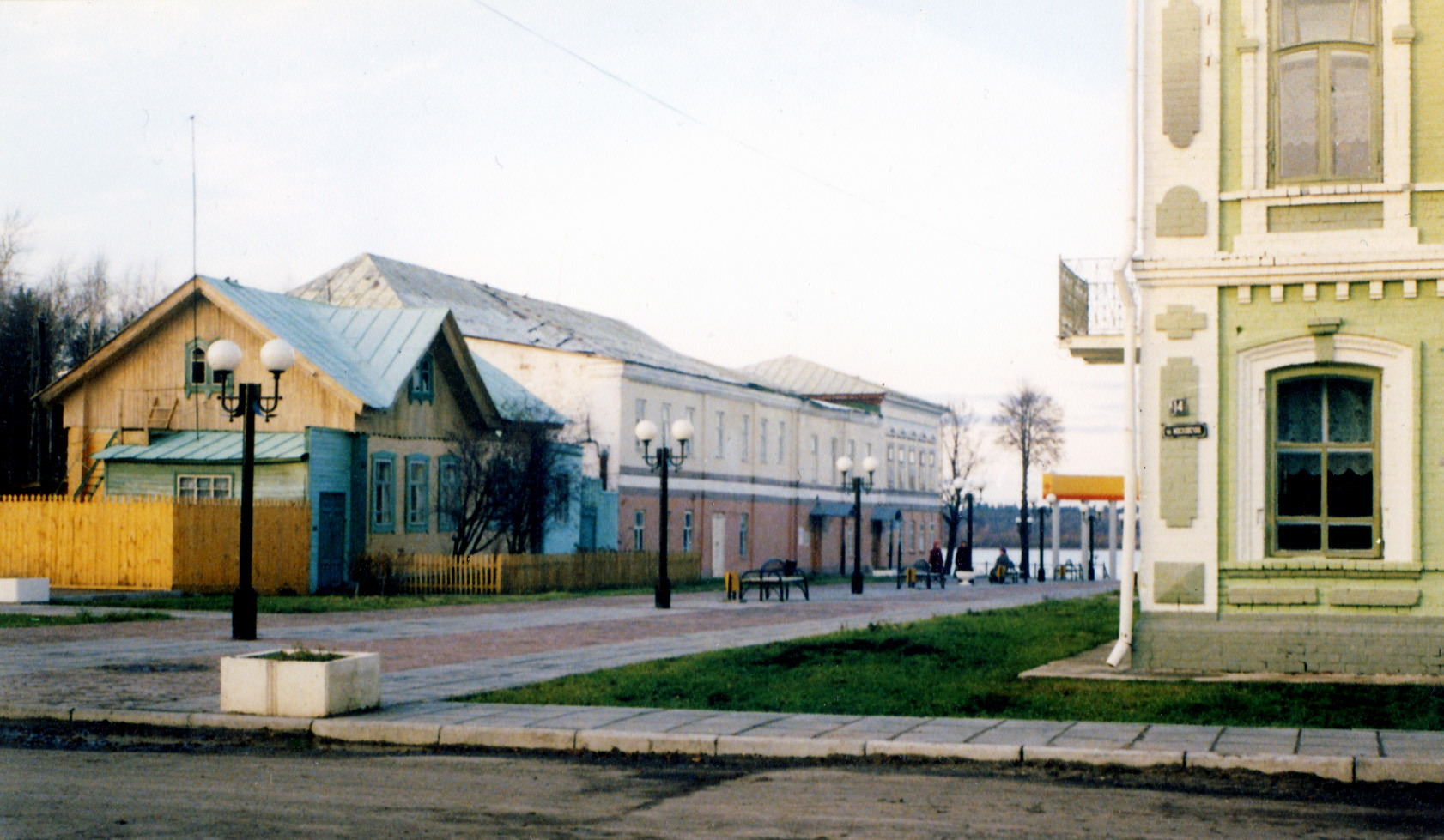 West side of pedestrian street